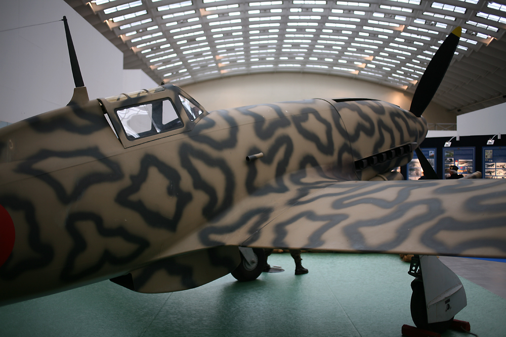 Macchi C205 Veltro operating with 4° stormo Duca d'Aosta, 1943